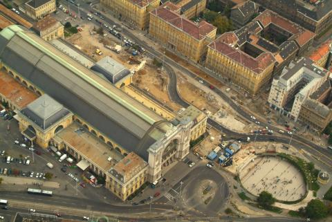 Keleti train station, hungary, aerialphotography, Budapest